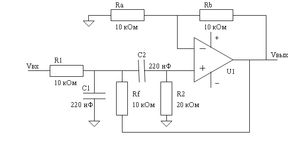 Sallen-Key filter (BP), Russian language